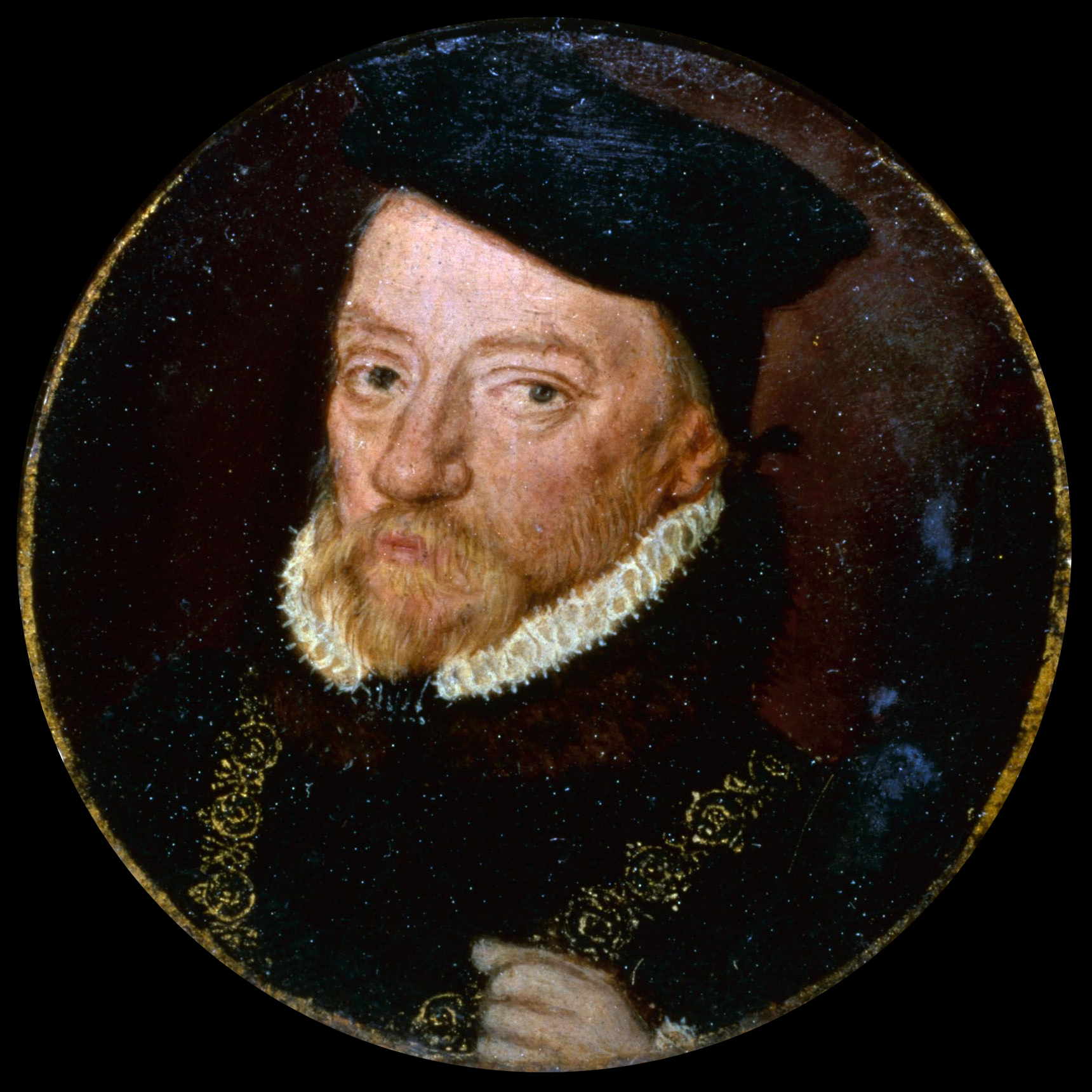 Sir William Paulet, 1st Marquess of Winchester. Miniatures.